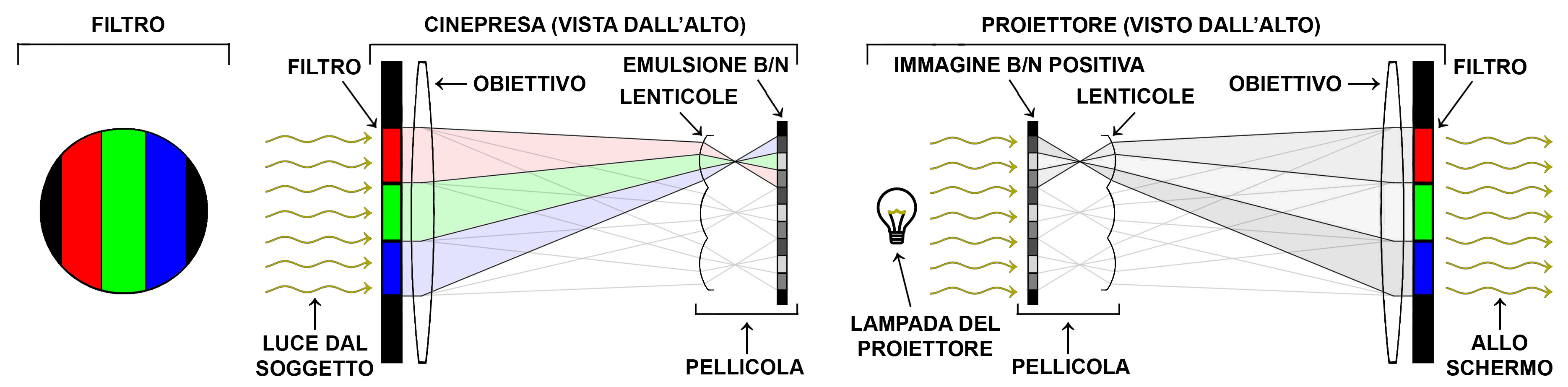 Color lenticular process for cinematography. From left to right: 1: filter for the taking system (a similar filter is used for the projection system); 2: lenticular taking system; 3. lenticular projection system.